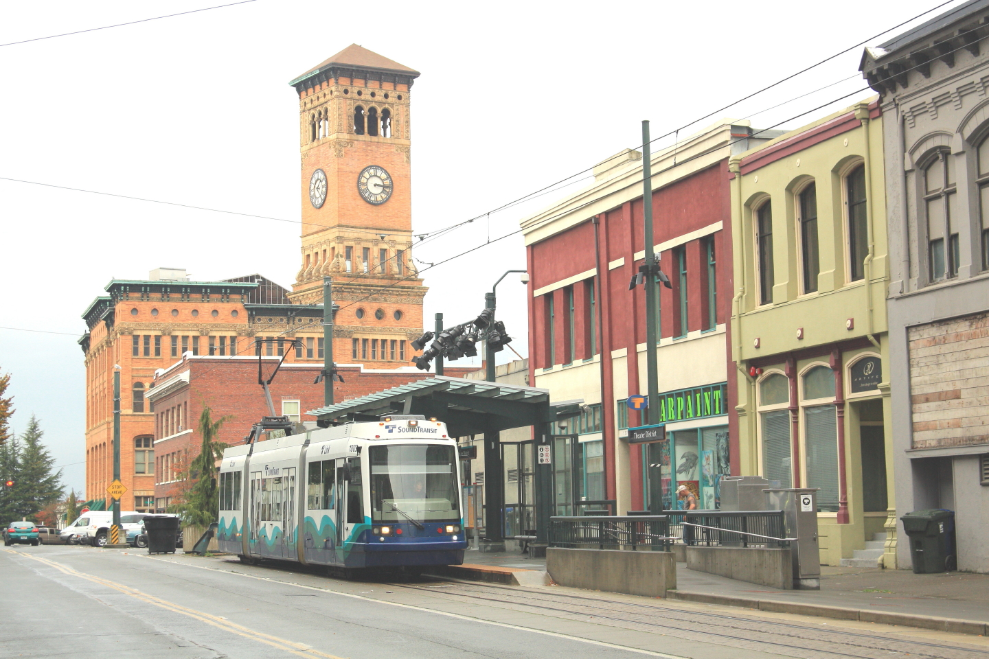 Tacoma Link car 1003 (Skoda/Inekon 10T) waits at Theater District Station to start its southbound trip. In the background, Old City Hall, constructed in 1892 with 15th century Italian town hall architecture dominates the skyline. City government moved to a new building in 1959. Currently, the building houses offices.